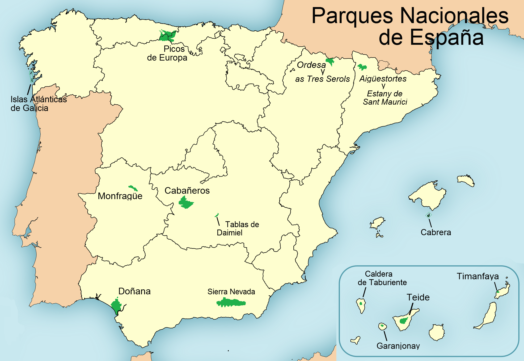 National Parks of Spain